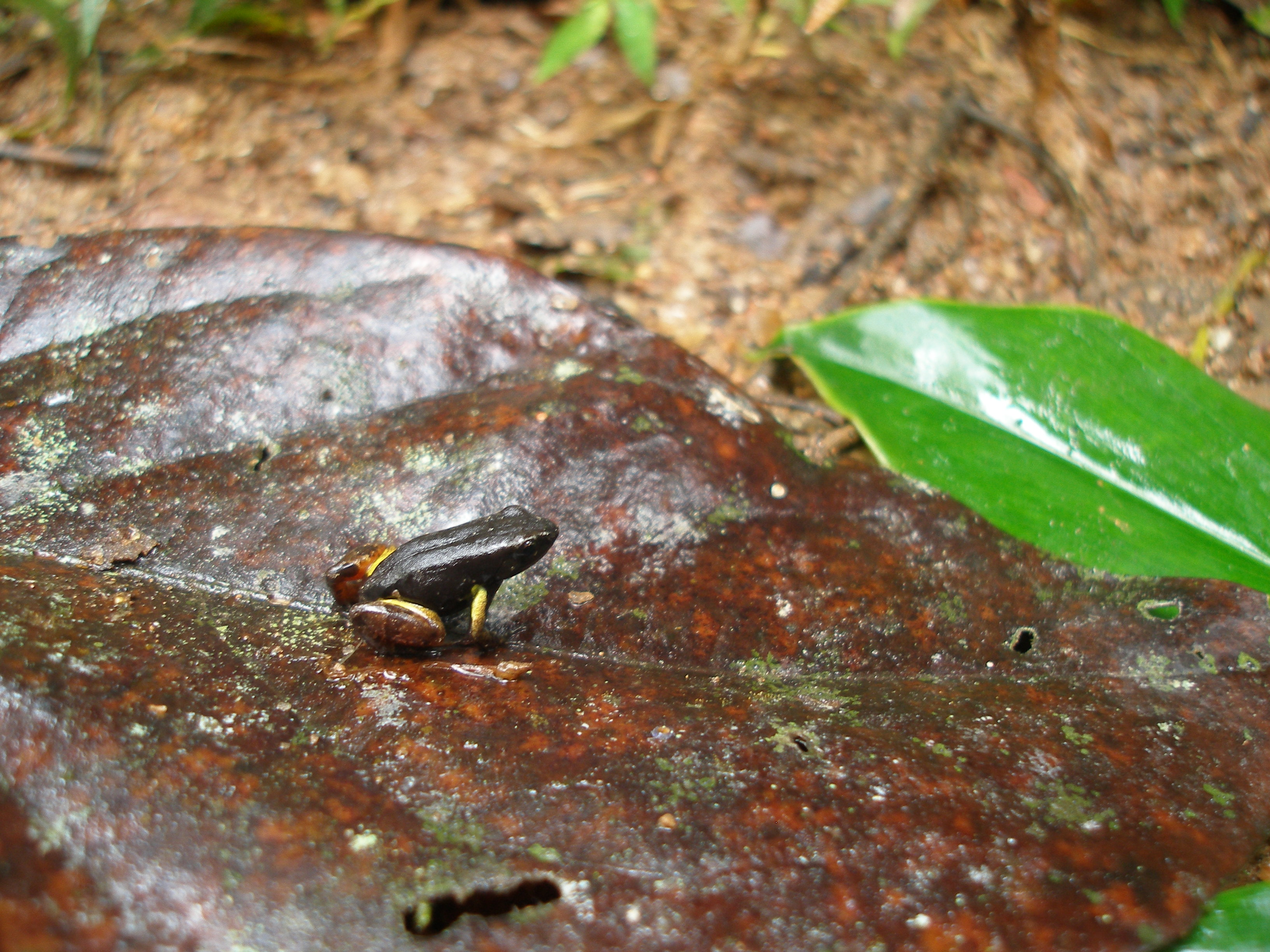 Mantella bernhardi - Ranomafana